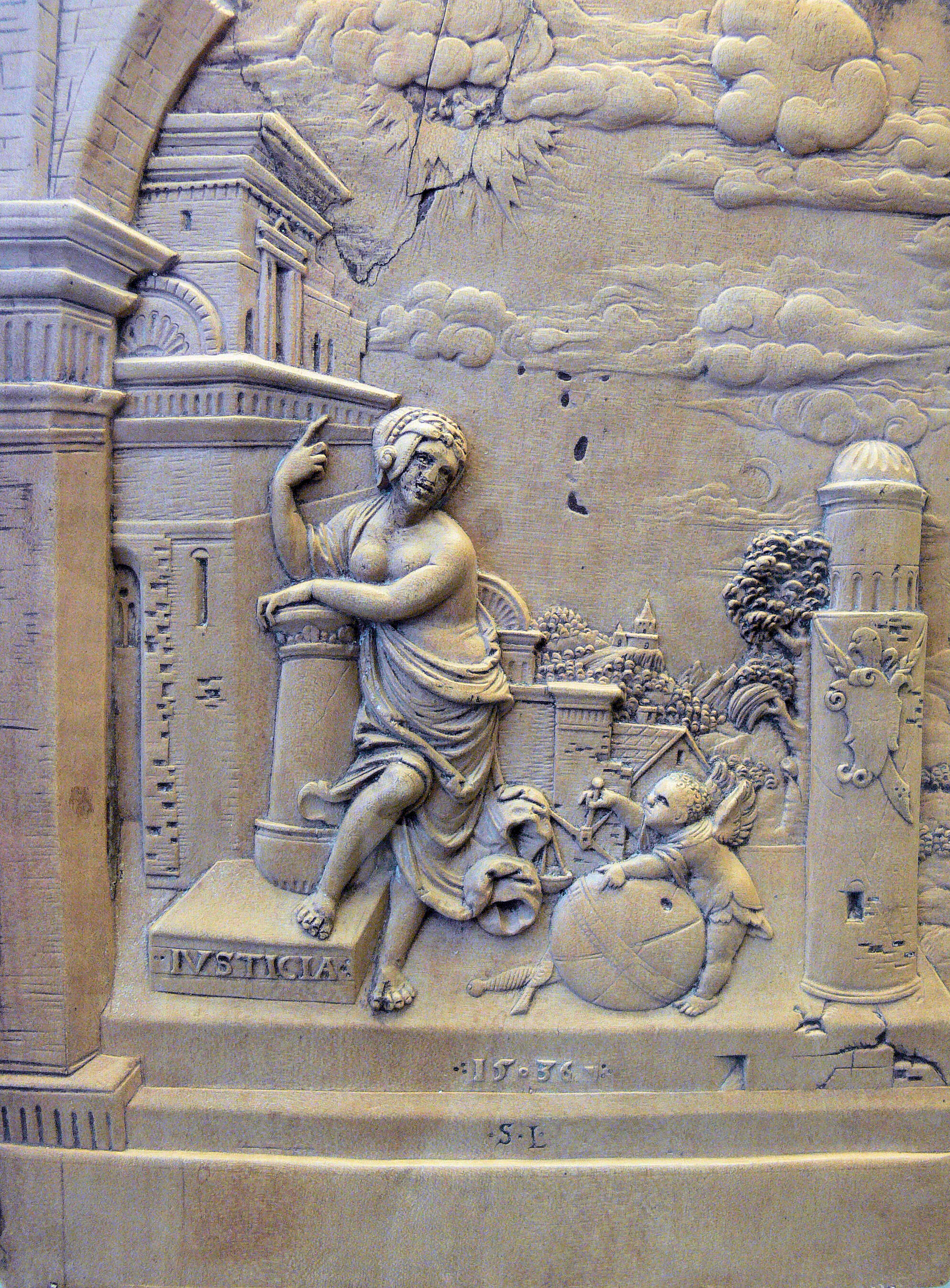 Sebastian Loscher: Symbolic representation of the earthly and the divine justice, 1536, boxwood. Kaiser-Friedrich-Museums-Verein (Inv. M 83, acquired in 1906), on permanent loan to the Skulpturensammlung, on display at Bode-Museum Berlin.